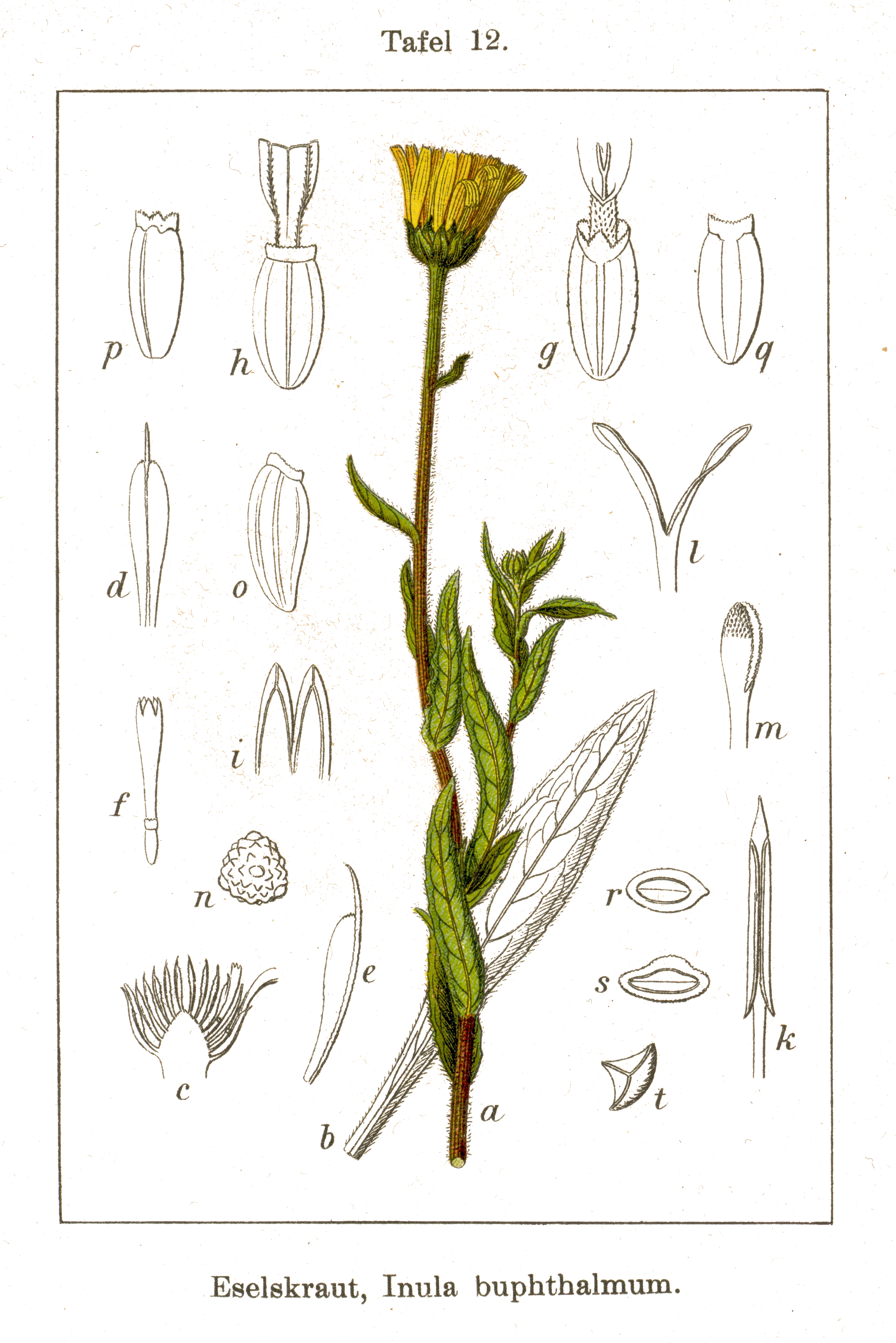 Buphthalmum salicifolium L. Unresolved name: Inula buphthalmum E.H.L.Krause Original Caption Eselskraut, Inula buphthalmum